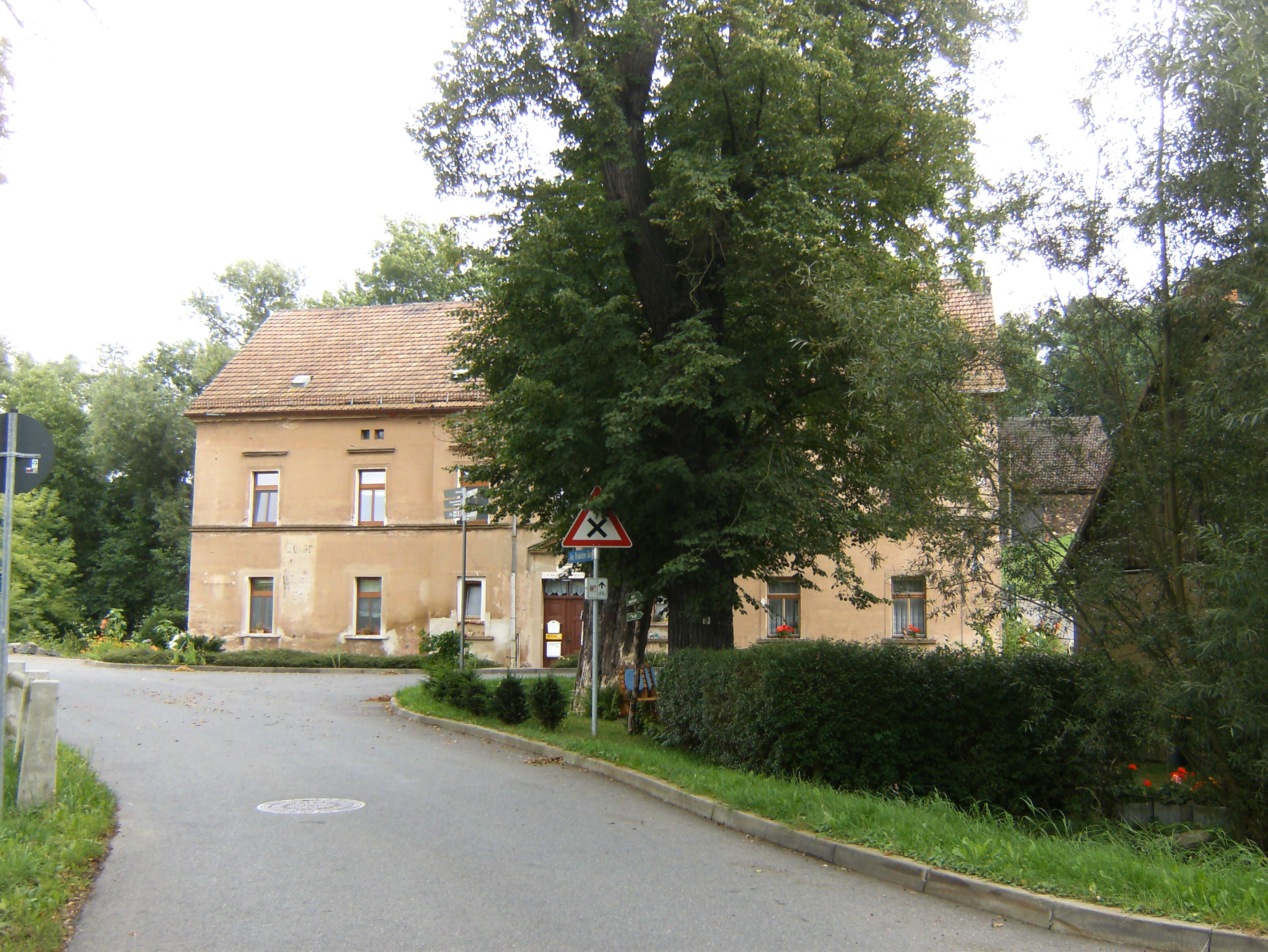 Collis mill.